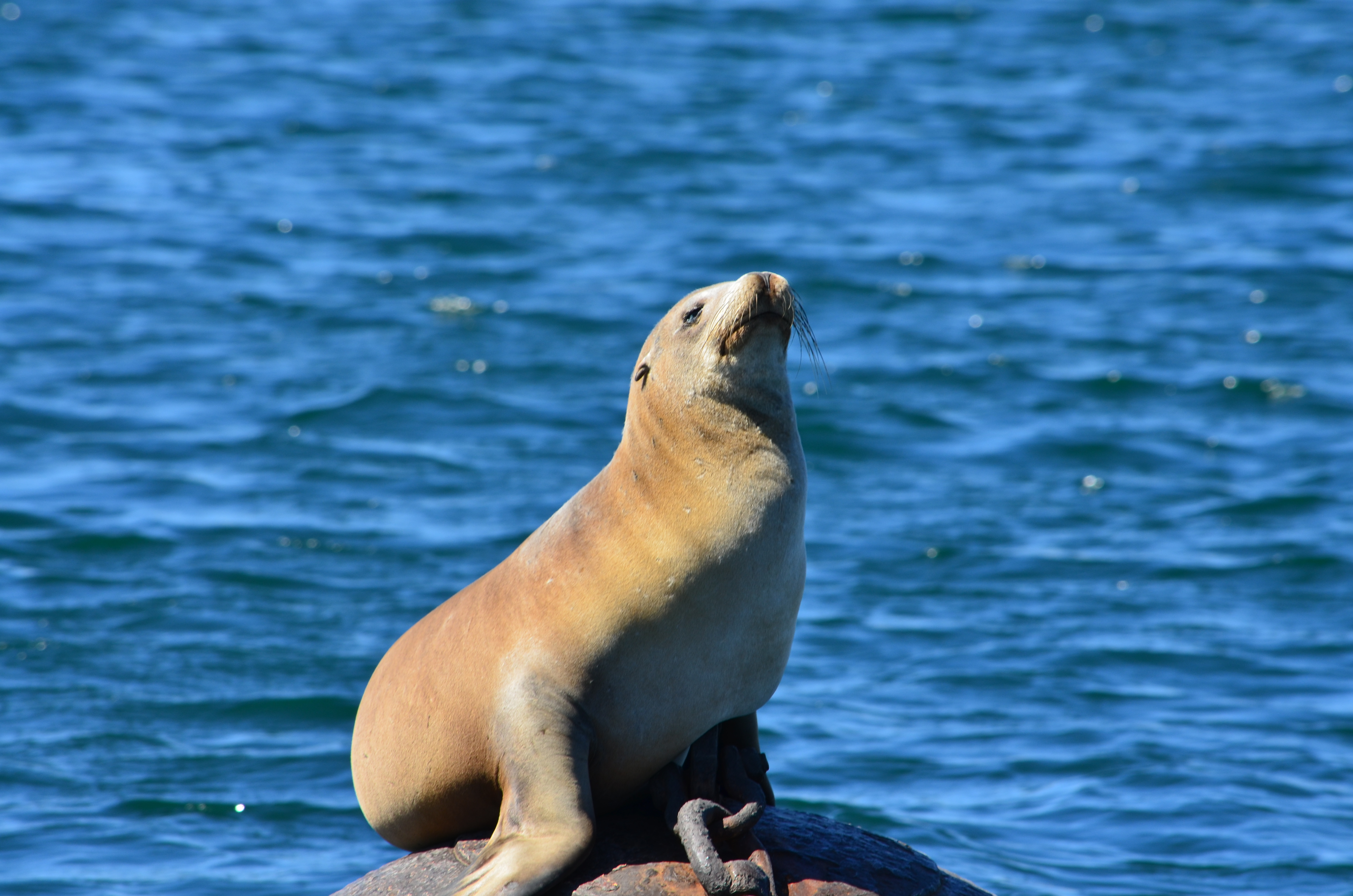 Monterey Bay, Sea lion